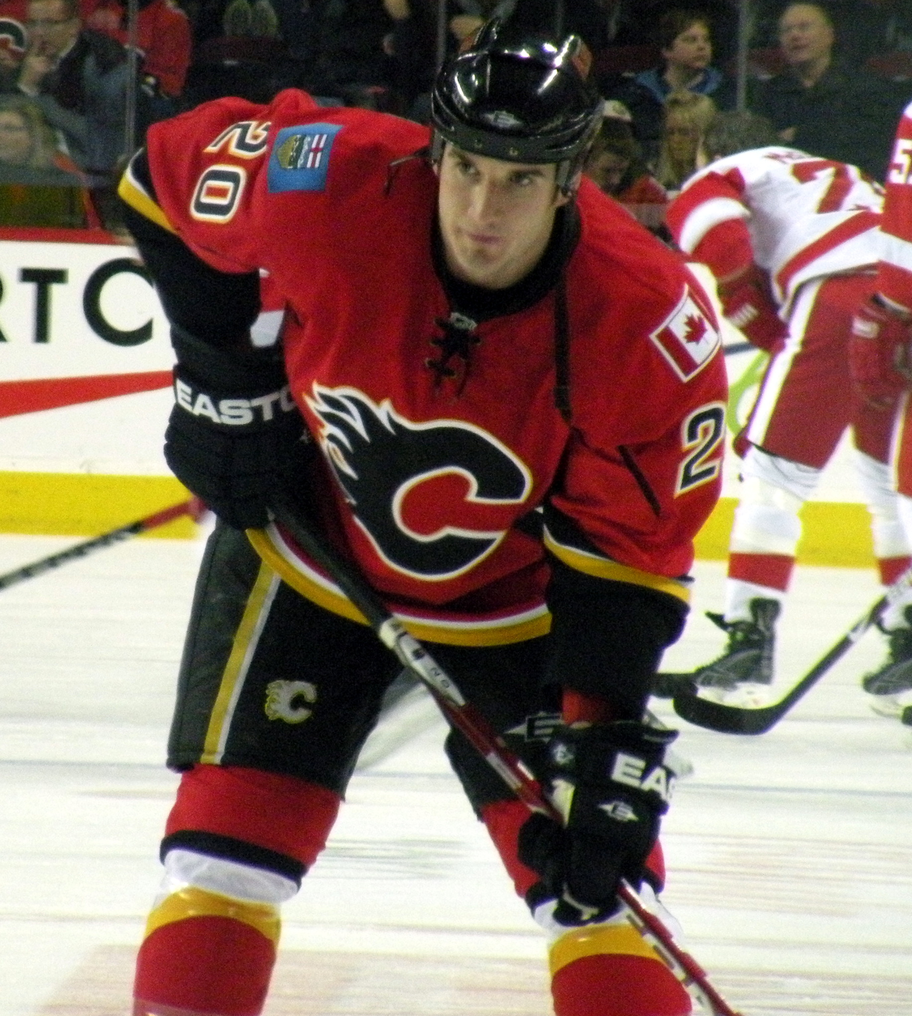 Forward Curtis Glencross warming up prior to a game between the Calgary Flames and Detroit Red Wings at Calgary, November 22, 2008.